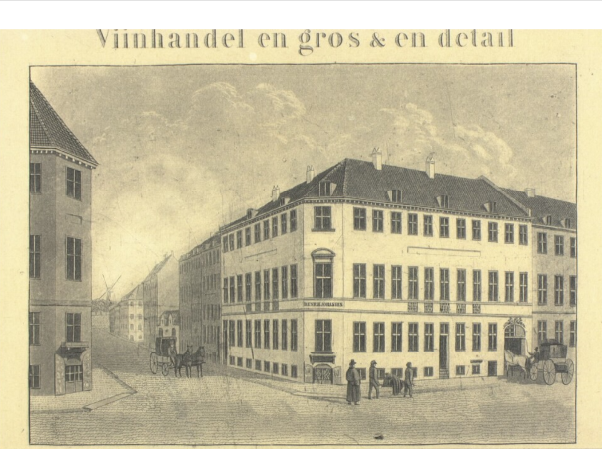 The Tre Hjorter building at Vestergade 12 in Copenhagen: "Viinhandel en gros & en detail".